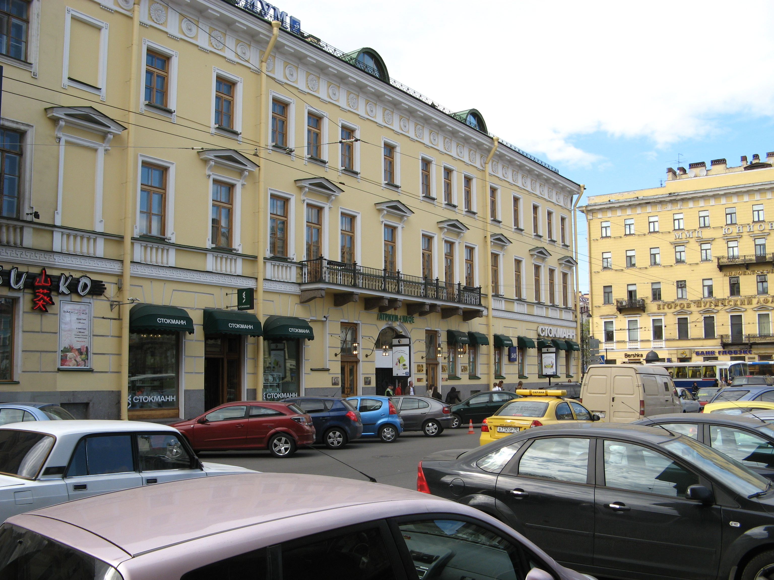 Kazanskaj street, 1 (Saint-Petersburg)